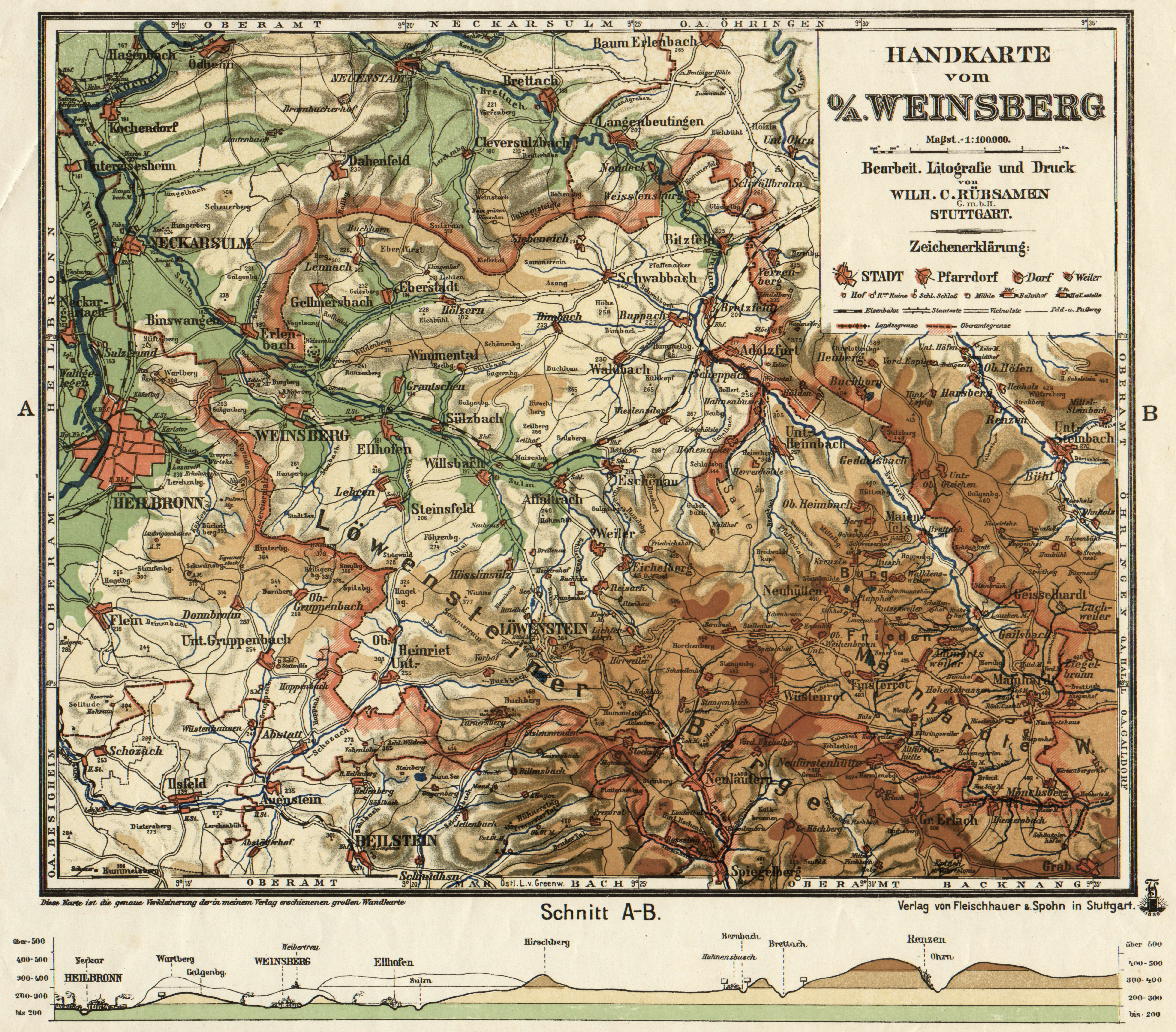 Map of the Oberamt Weinsberg (Weinsberg district), scale 1:100 000